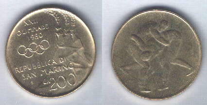 San Marino - 200 lire XXII Olympic games - 1980 scan by --Paginazero 08:38, 29 Jan 2005 (UTC)